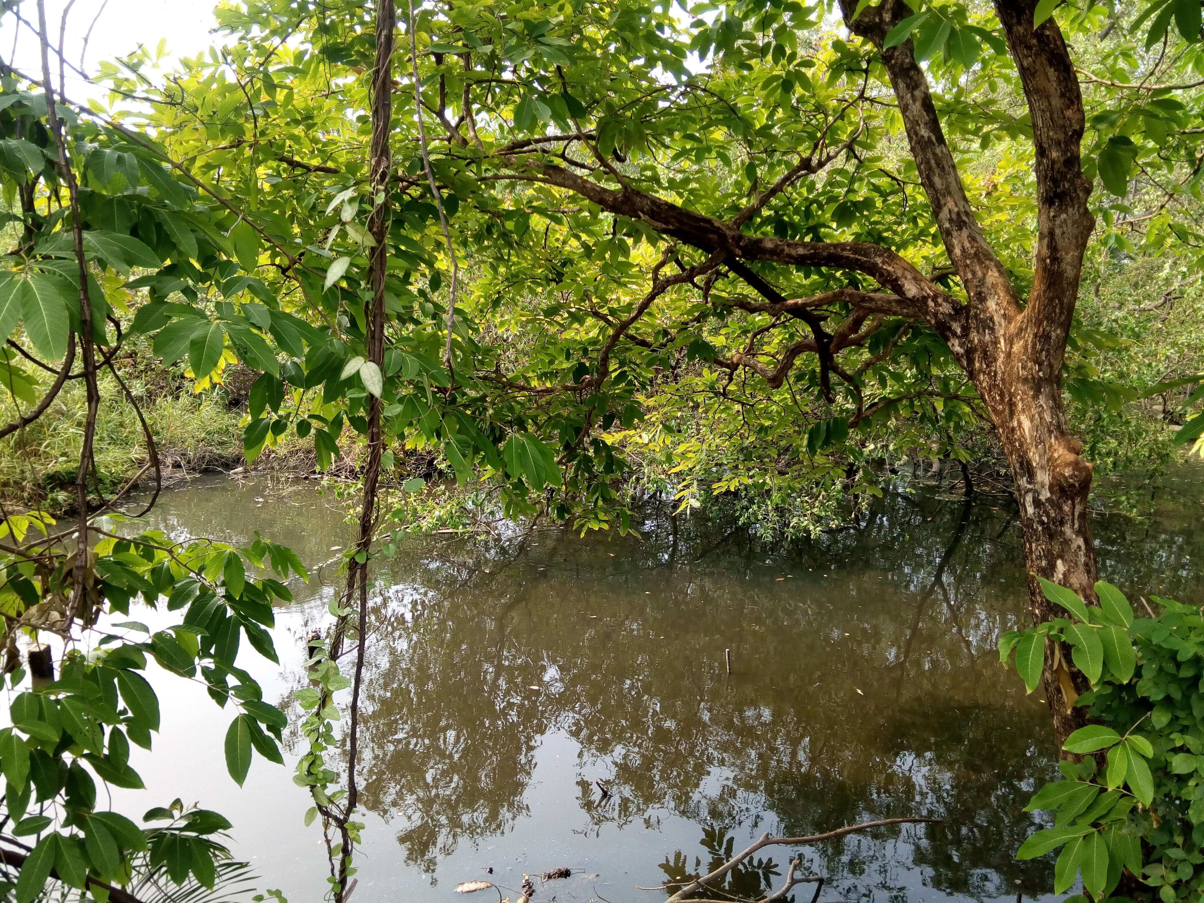 Marsh ecosystem in Muara Angke Wildlife Reserve